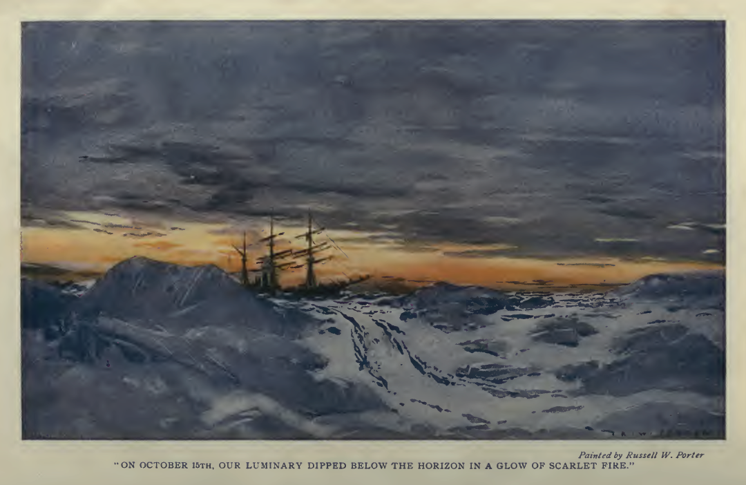 "On October 15, Our Luminary dipped below the horizon in a glow of scarlet fire"